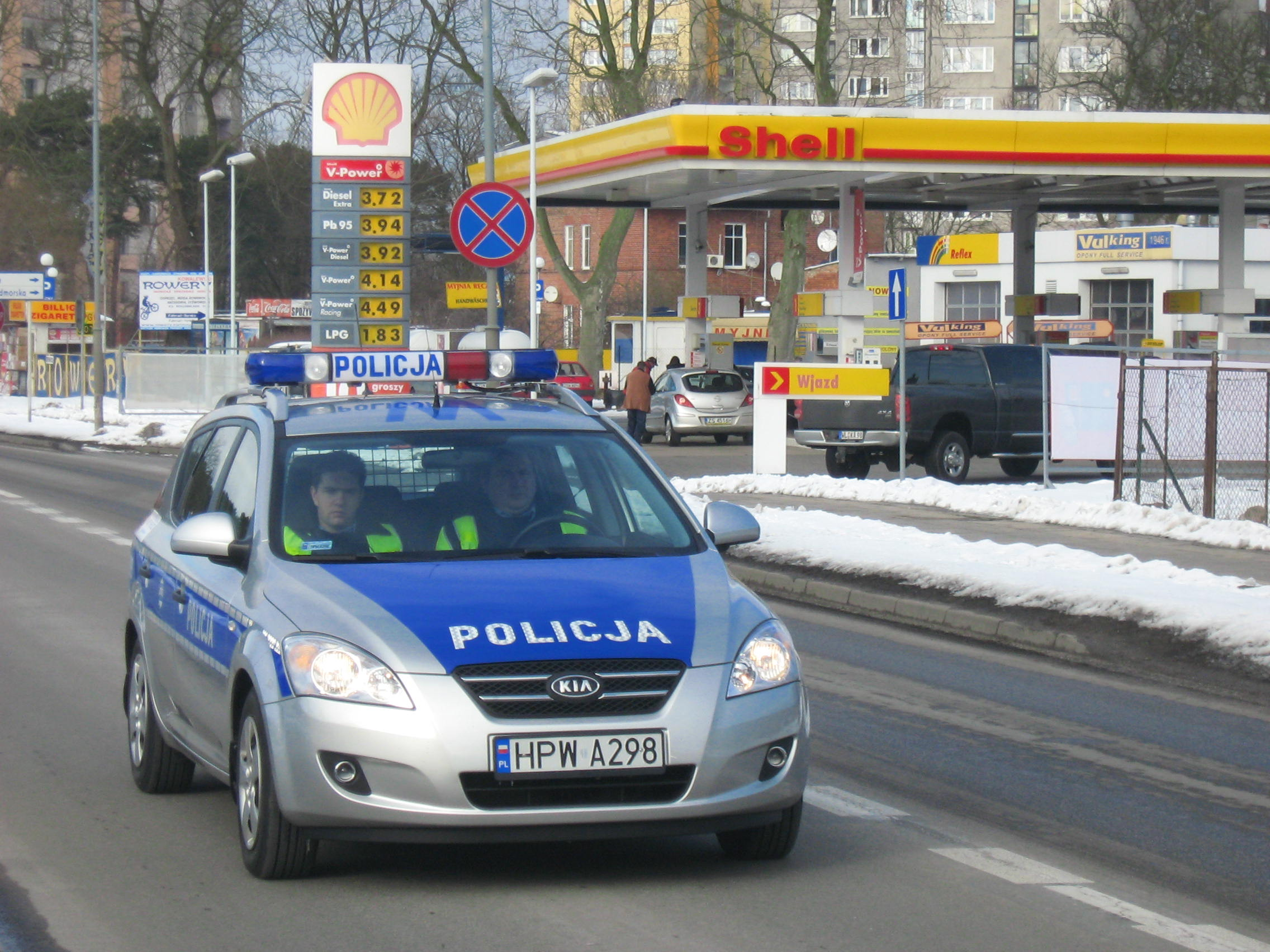 Kia cee'd police squad car in Świnoujście, Poland.